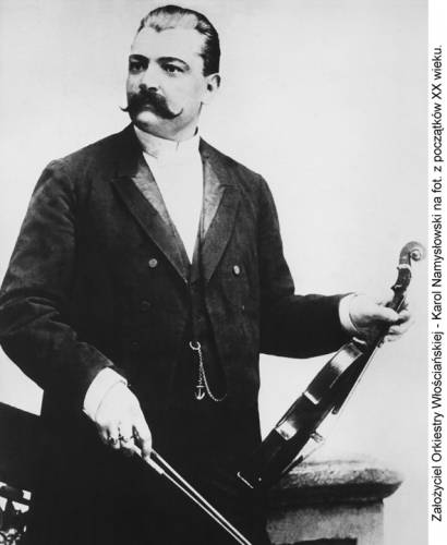 Karol Namysłowski